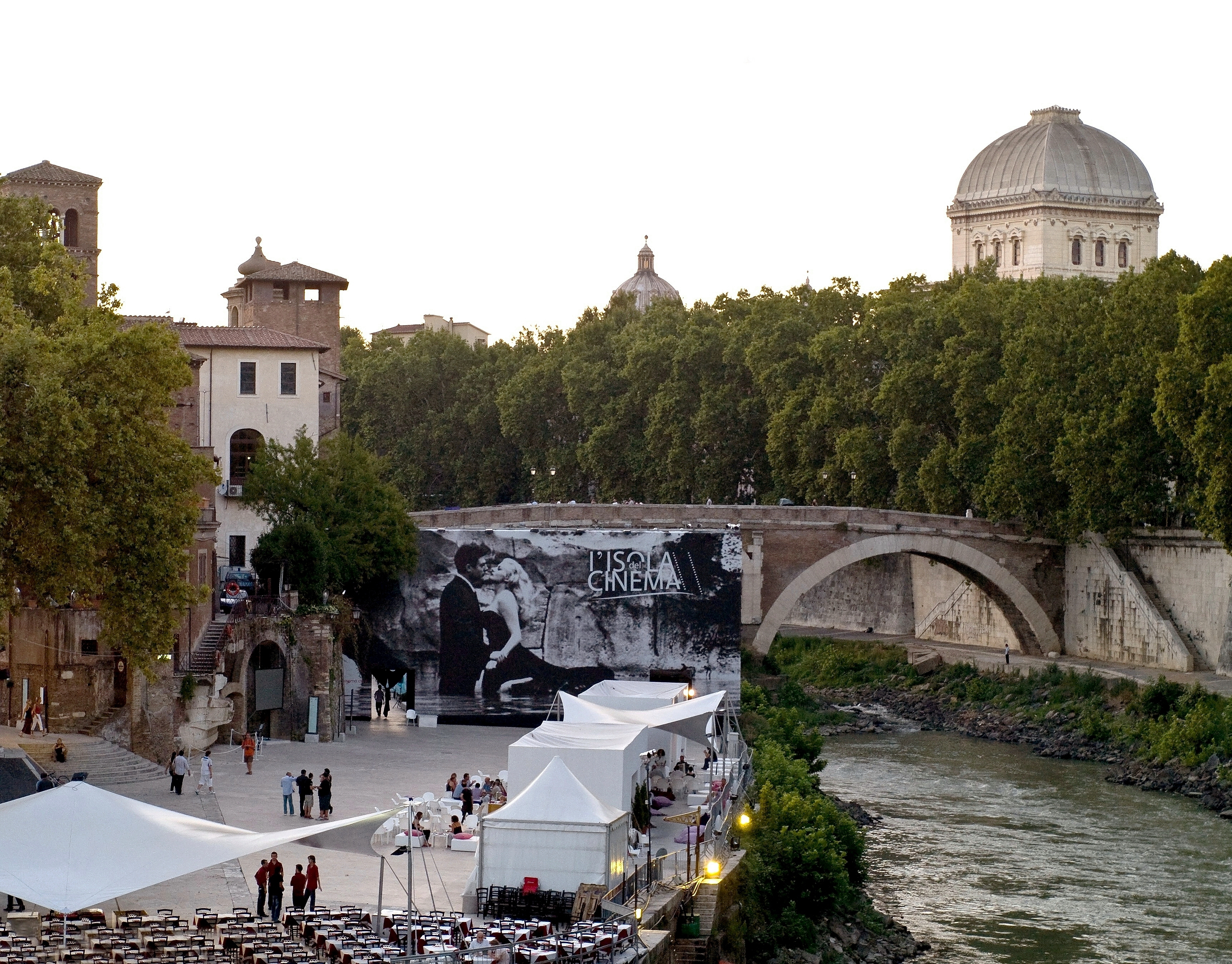 The Tiber Island in Rome hosts the Isola del Cinema open air film festival during summer.